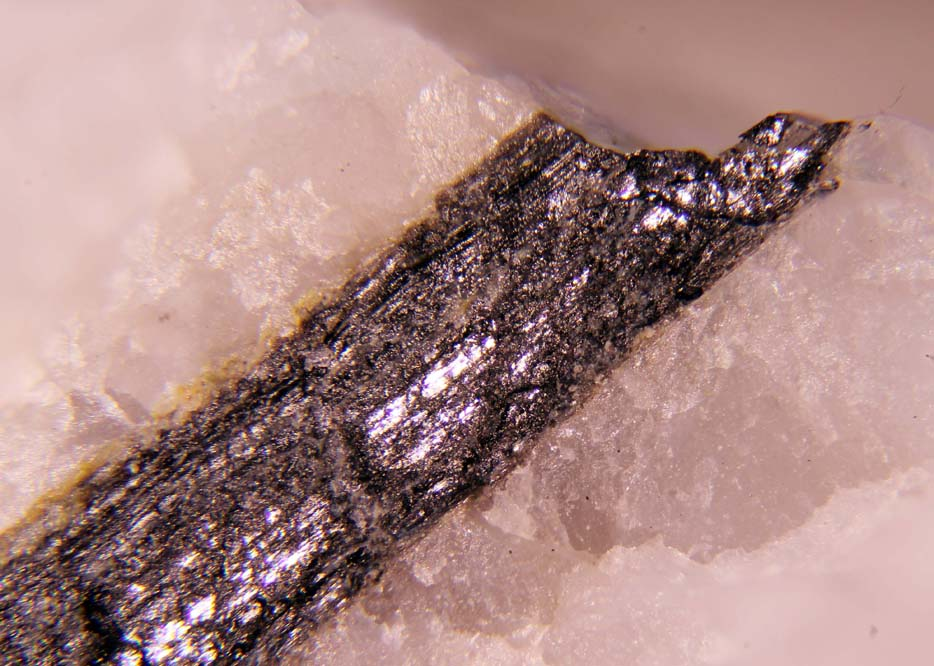 Metallic crystals of the very rare Pb-Bi sulphosalt mineral aschamalmite from one of the few known localities worldwide (Sedl, Habach valley, Salzburg, Austria).